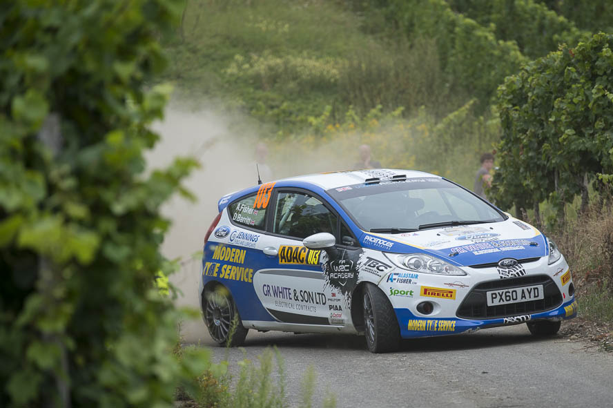 Rally Germany 2012 ADAC Rallye Deutschland,Alastair Fisher,Daniel Barritt,Ford Fiesta R2,Moselland,Motorsport,Rally,Rallye,Rallye Deutschland,SS5,WP5,WRC